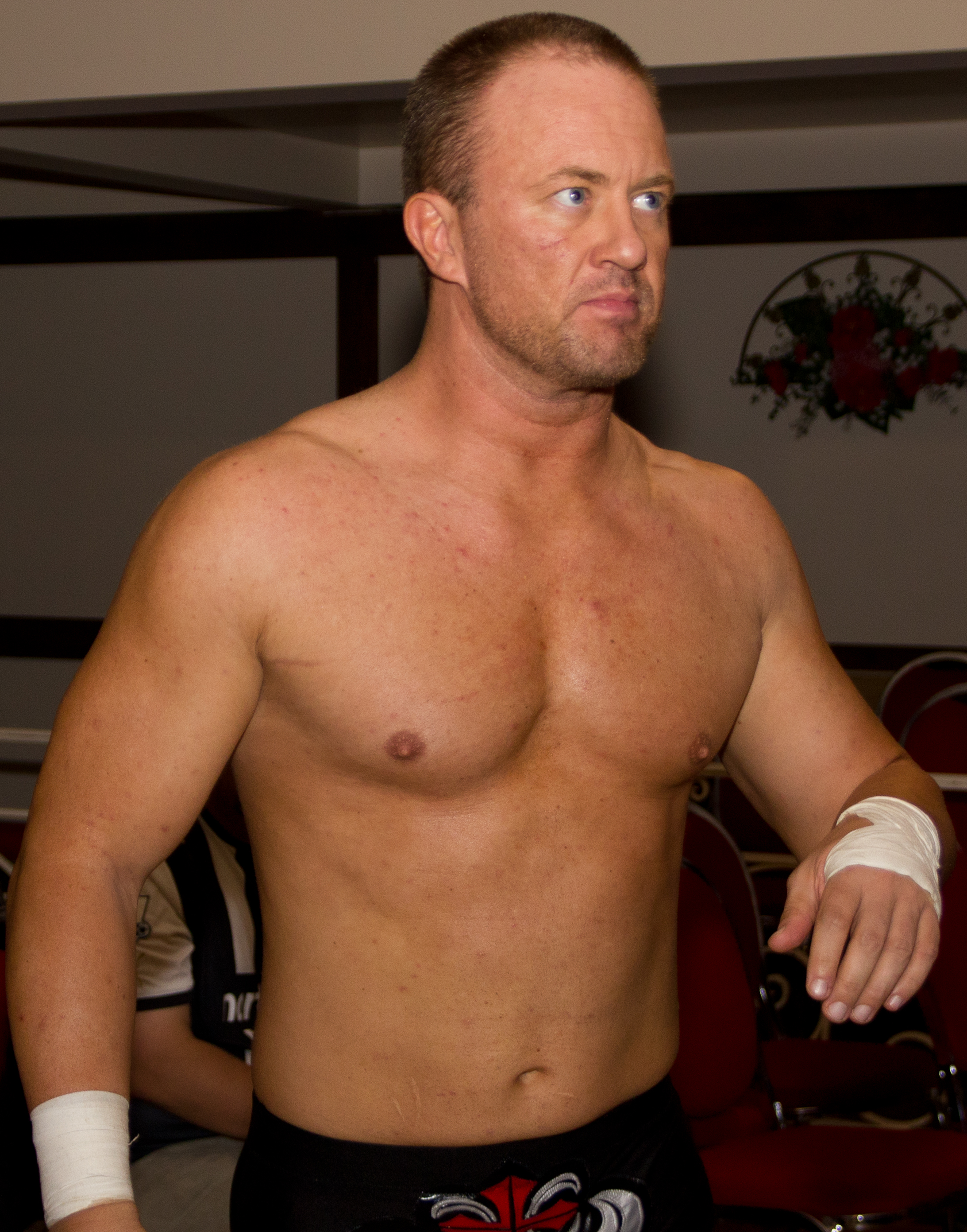 Professional wrestler B.J. Whitmer in July 2012.